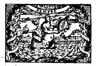 Bulifon's mark